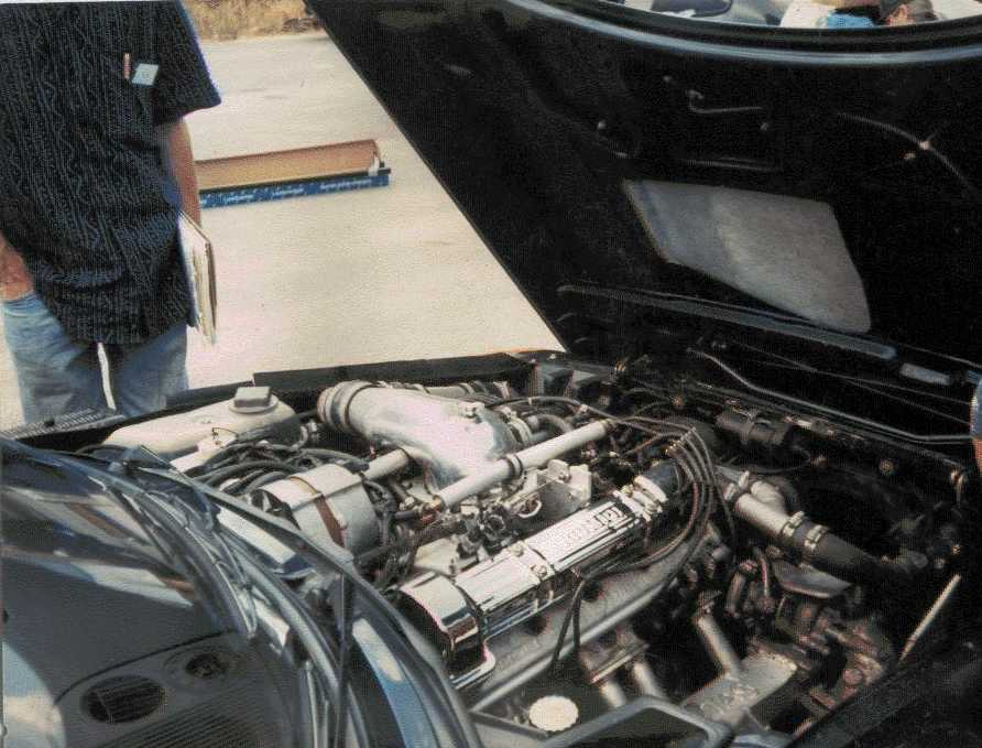 This photo was taken at the Saab Owners Convention in 1990. A turbocharged Triumph Stag 8cyl engine in a Saab 900